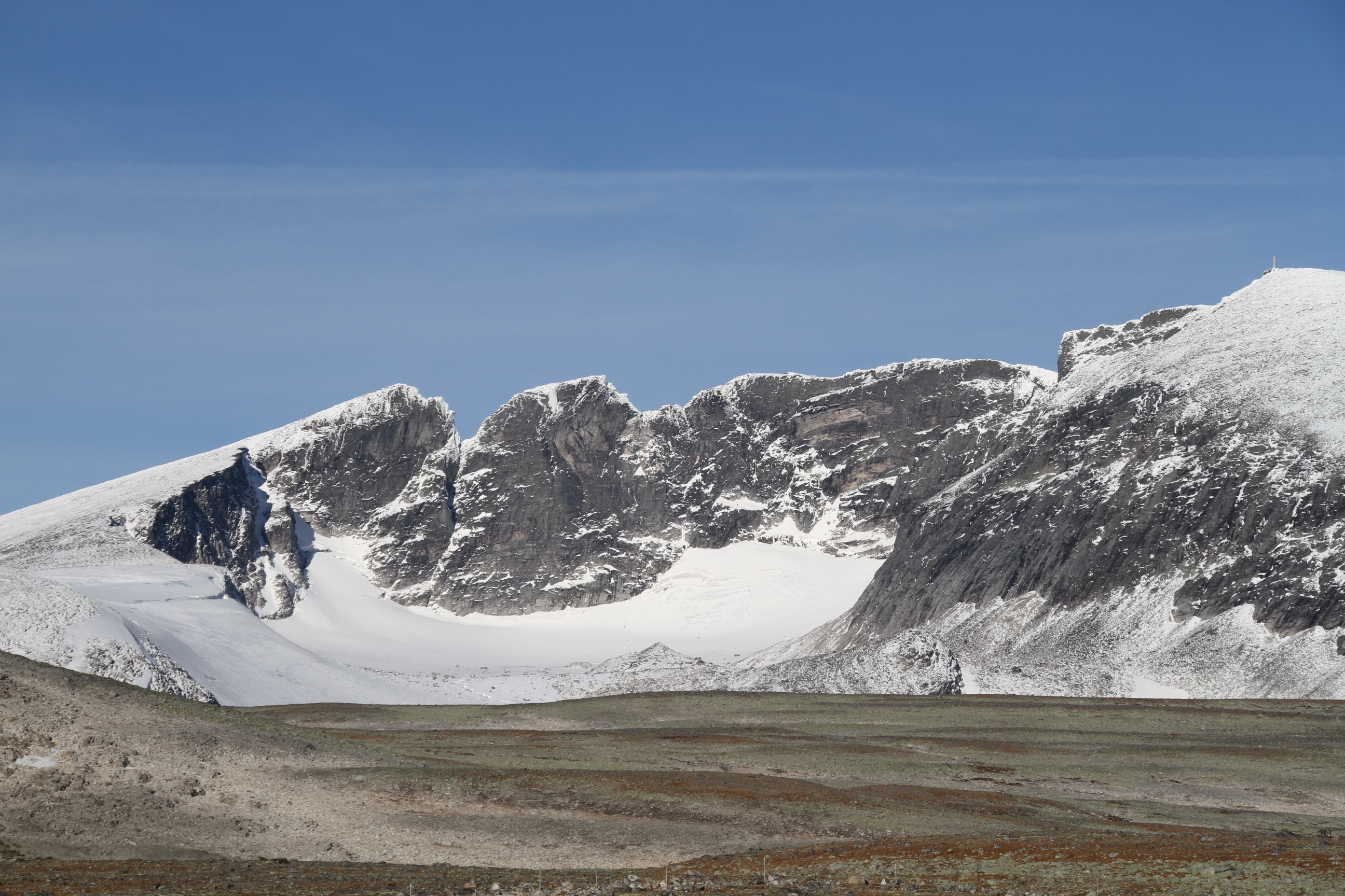 Image from the mountain massif "Snøhetta2 (2.280 mosl), in Oppland county, Norway.